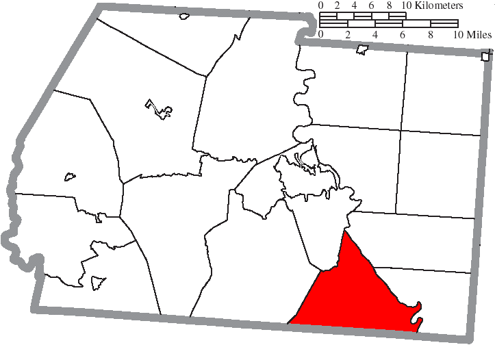 Map of the municipal and township boundaries of Ross County, Ohio, United States, as of the 2000 census, with the location of Franklin Township highlighted. Township borders are shown only in unincorporated areas in order to differentiate incorporated and unincorporated areas more clearly.